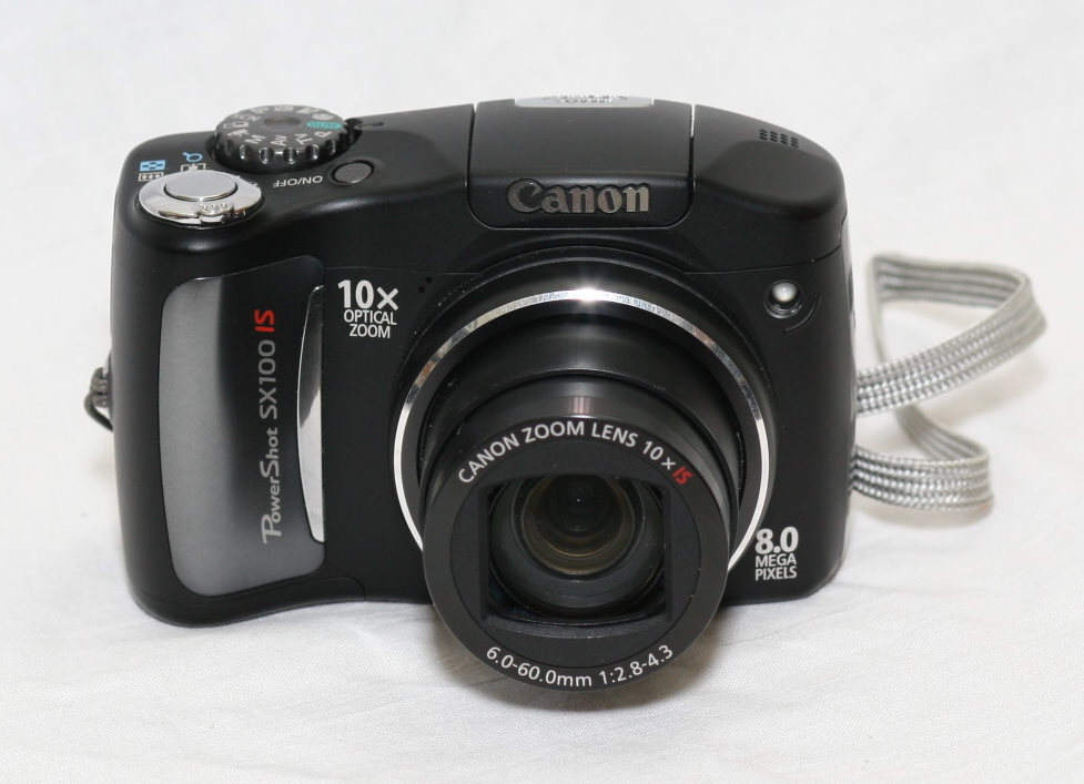 My carry-around digital.